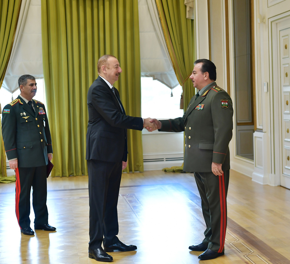 Ilham Aliyev received participants of CIS Council of Defense Ministers meeting